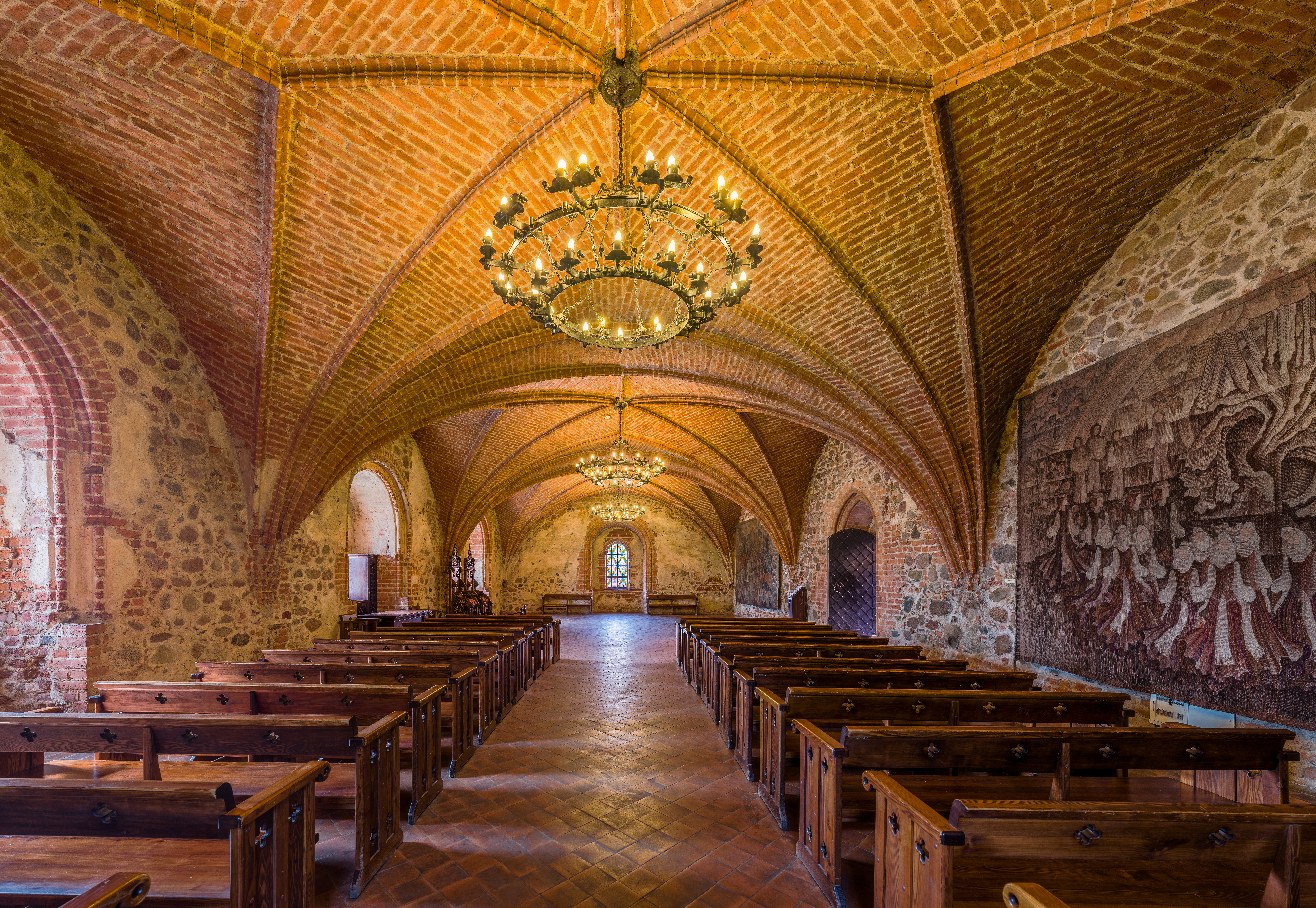 The chapel of Trakai Island Castle in Lithuania.